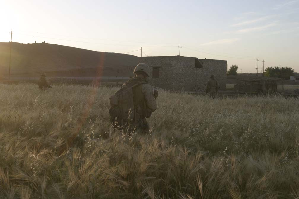 AL UBAYDI, Iraq- HM2 Jenkins, a corpsman with 3d Battalion, 25th Marines, moves through a wheat field, while the Marines he tends to clear a farm house, May 10, 2005 during Operation Matador. Operation Matador is for disrupting the insurgents known to be a staging area for Syrian and other nationality foreign insurgents. 2D Marine Division is conducting security and stabilization operations in support of Operation Iraqi Freedom III. (OFFICIAL USMC PHOTO BY CPL ERIC C ELY, 2D MARINE DIVISION COMBAT CAMERA)-UNRELEASED